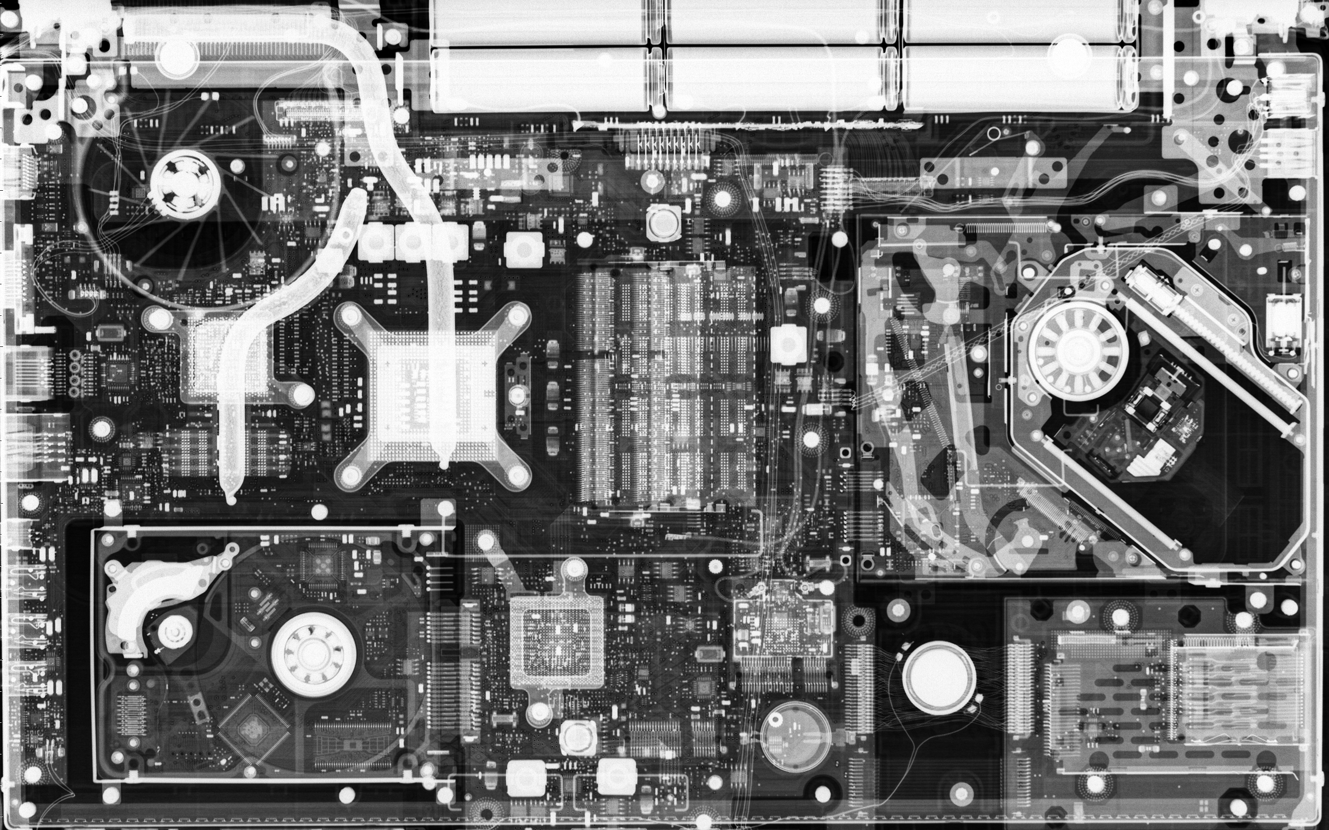 An X-ray of a laptop.